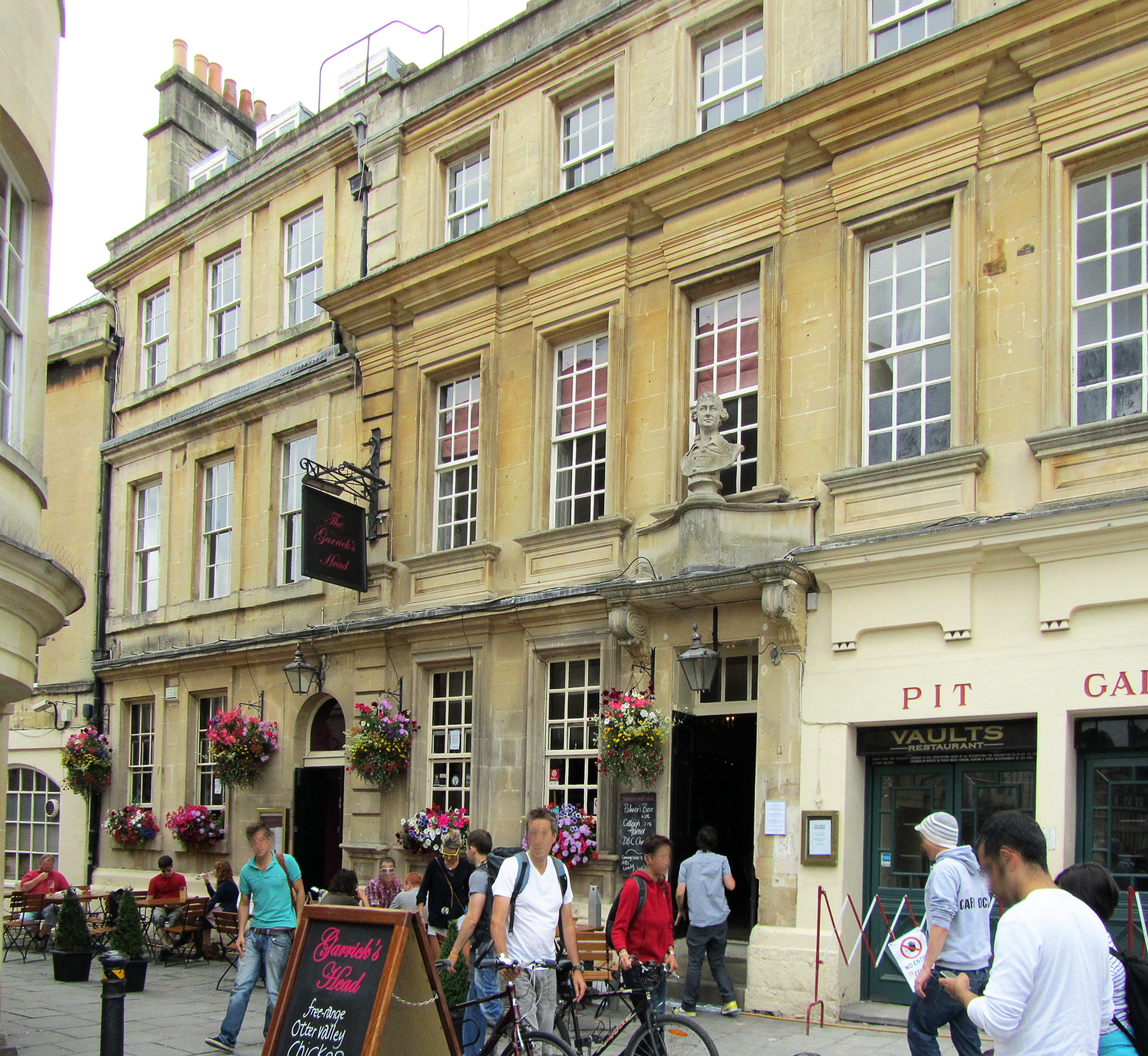 The Garricks Head pub, by the Theatre Royal, Bath, Somerset.